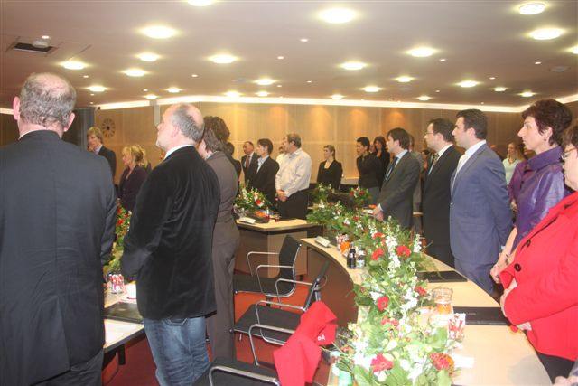 Politici in Holland.